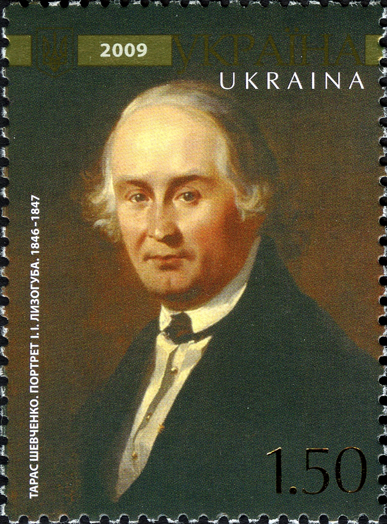 Stamp of Ukraine